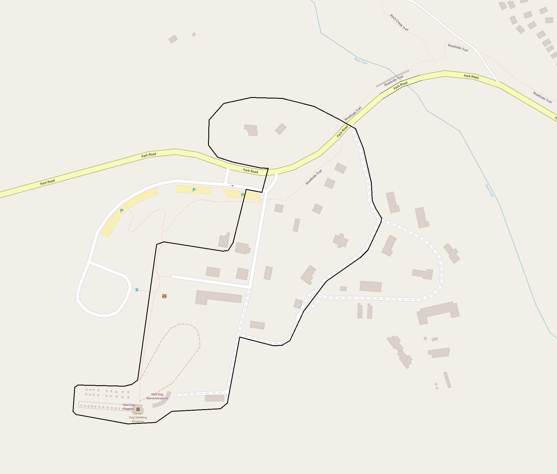 Map showing the boundaries of the Mount McKinley National Park Headquarters District in Denali National Park, Alaska, United States. The historic district is listed on the National Register of Historic Places. Boundaries are derived from the map attached to the district's National Register nomination form.